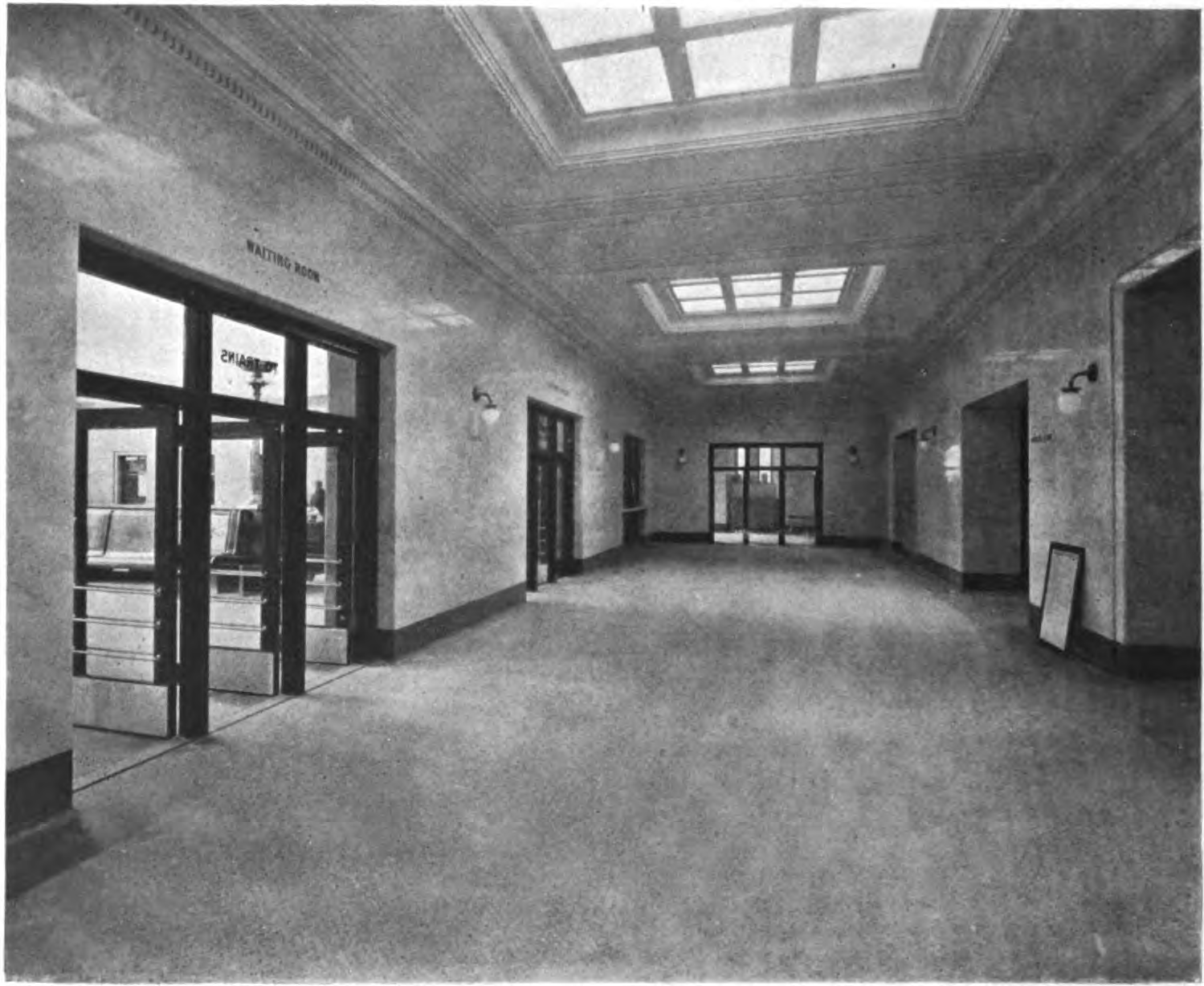 Concourse of the CPR North Toronto station shortly after opening.